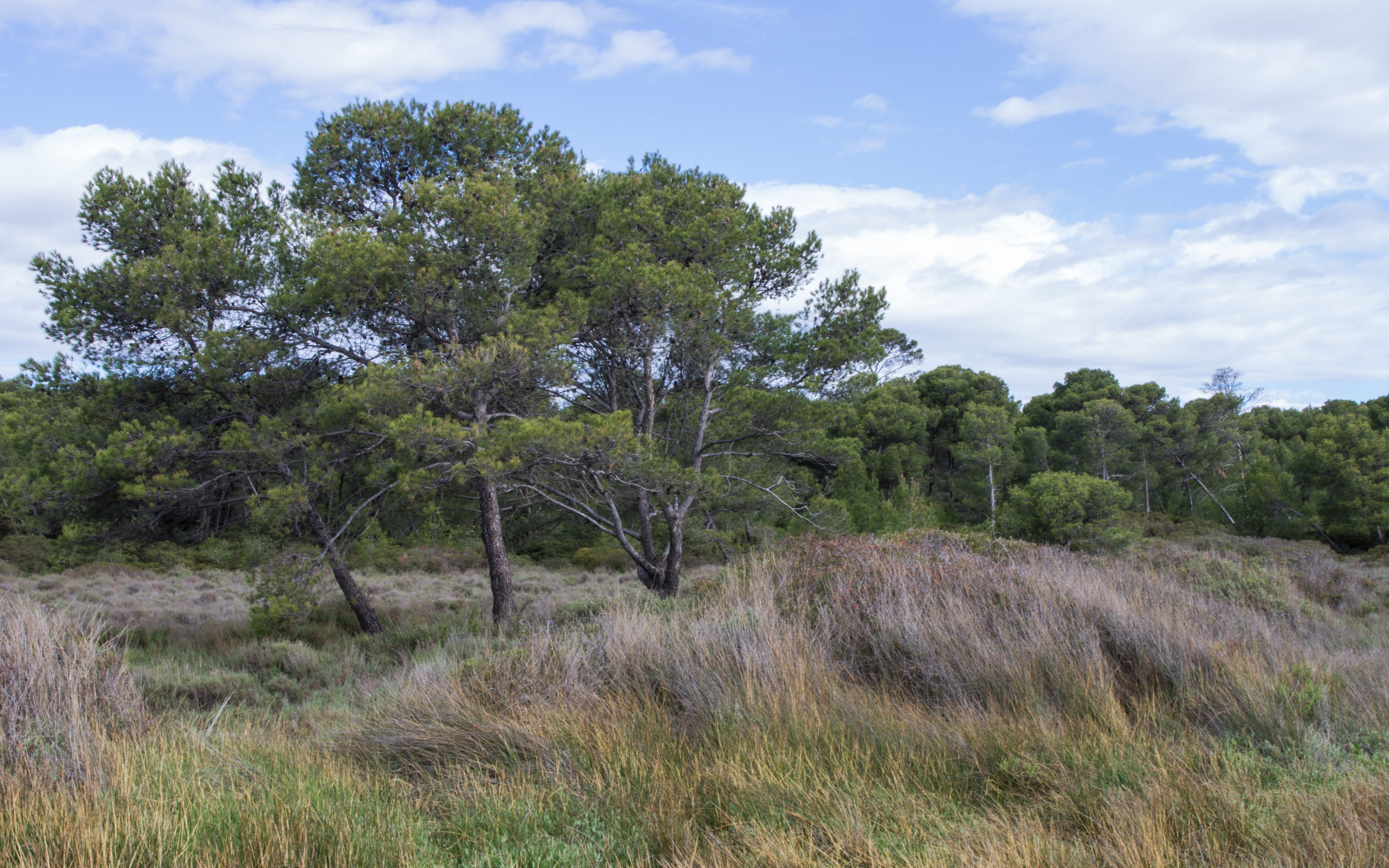 Bois des Aresquiers, commune of Vic-la-Gardiole, Hérault, France